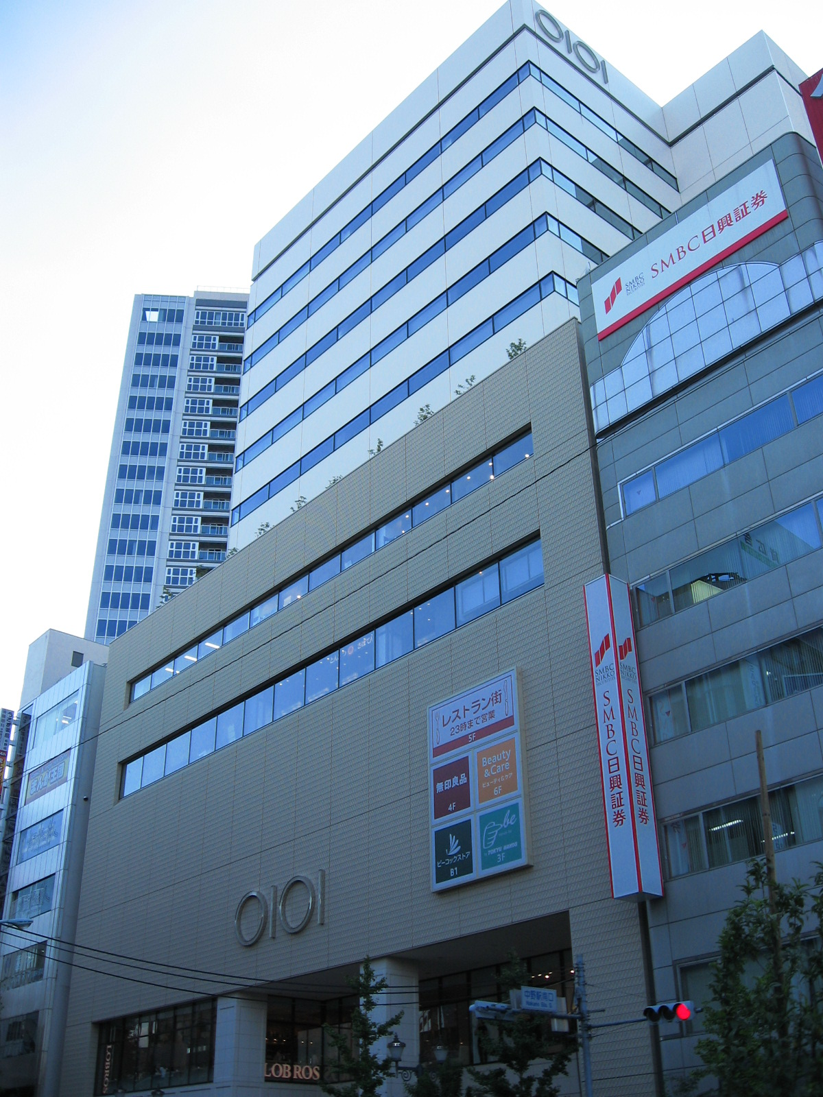 Nakano Marui